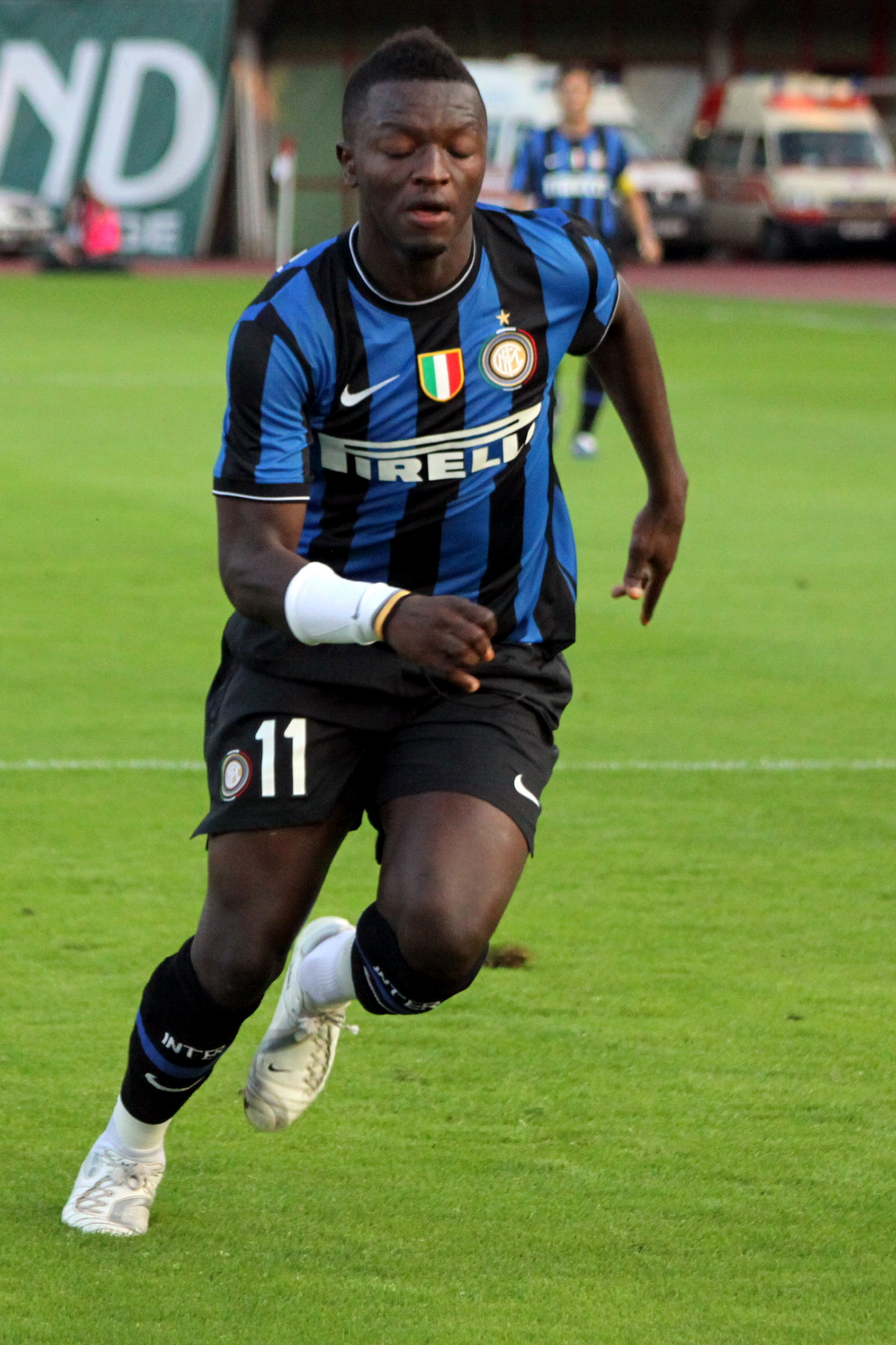 Sulley Muntari - F.C. Internazionale Milano